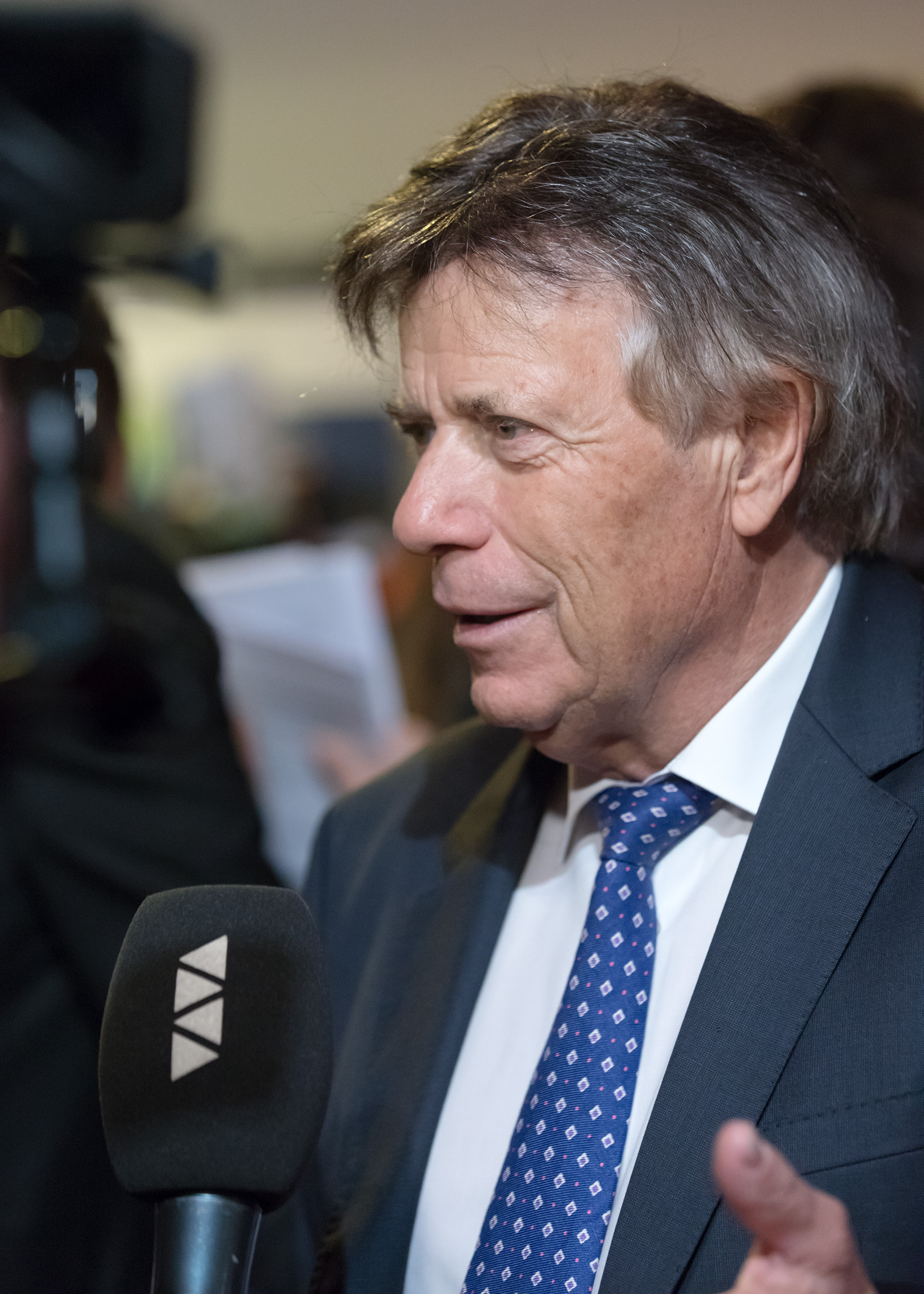 Peter Schröcksnadel at the gala for the Austrian Sports Personalities of the Year 2017, at Marx Halle (Sankt Marx, Vienna, Austria).